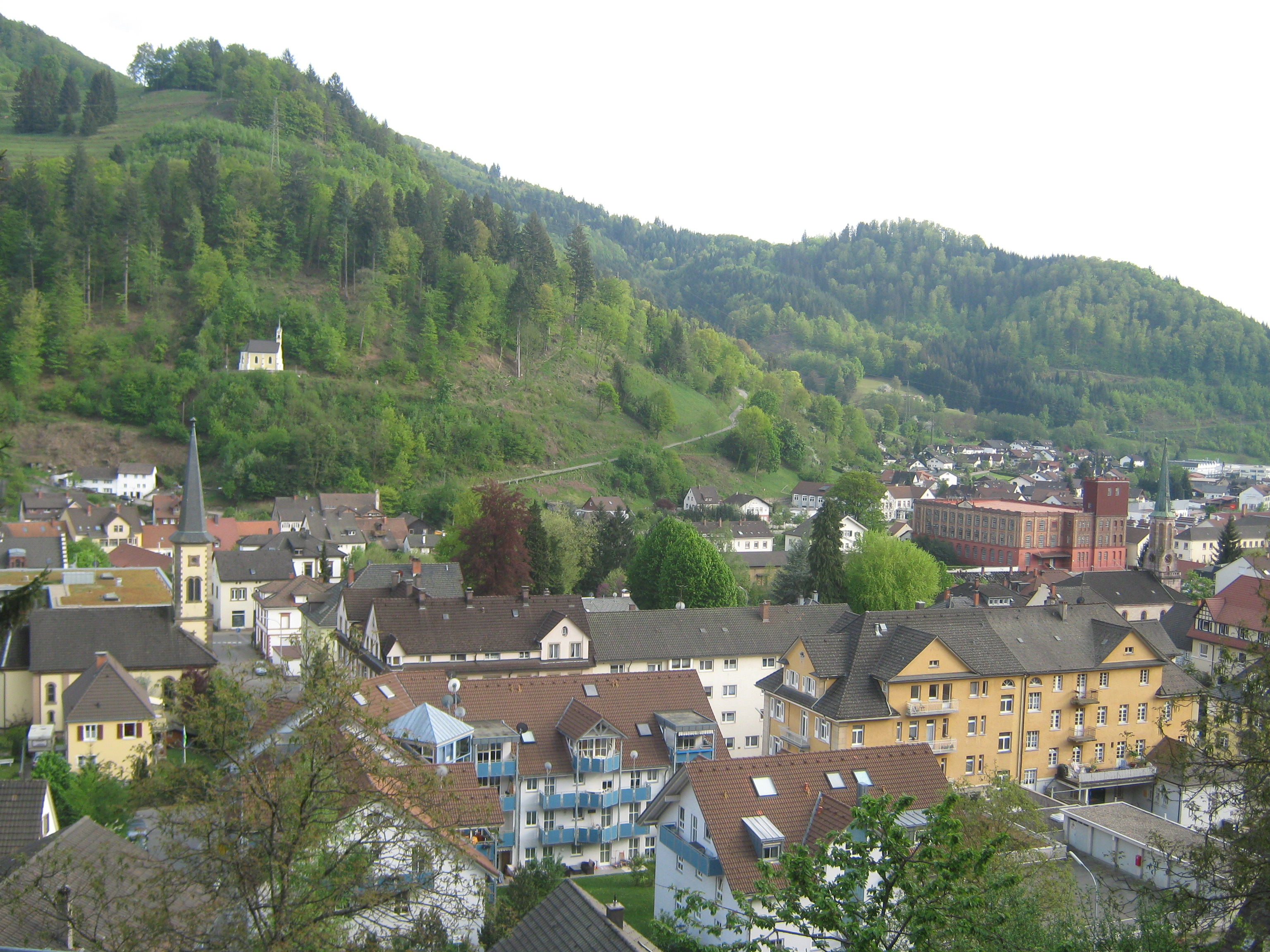 Zell im Wiesental